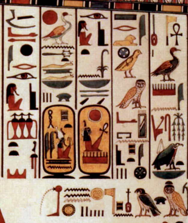 Henry William Beechey. Seti I tomb.